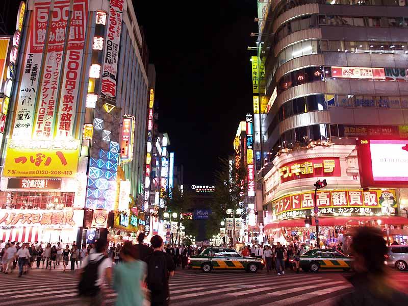 Kabukicho in Tokyo